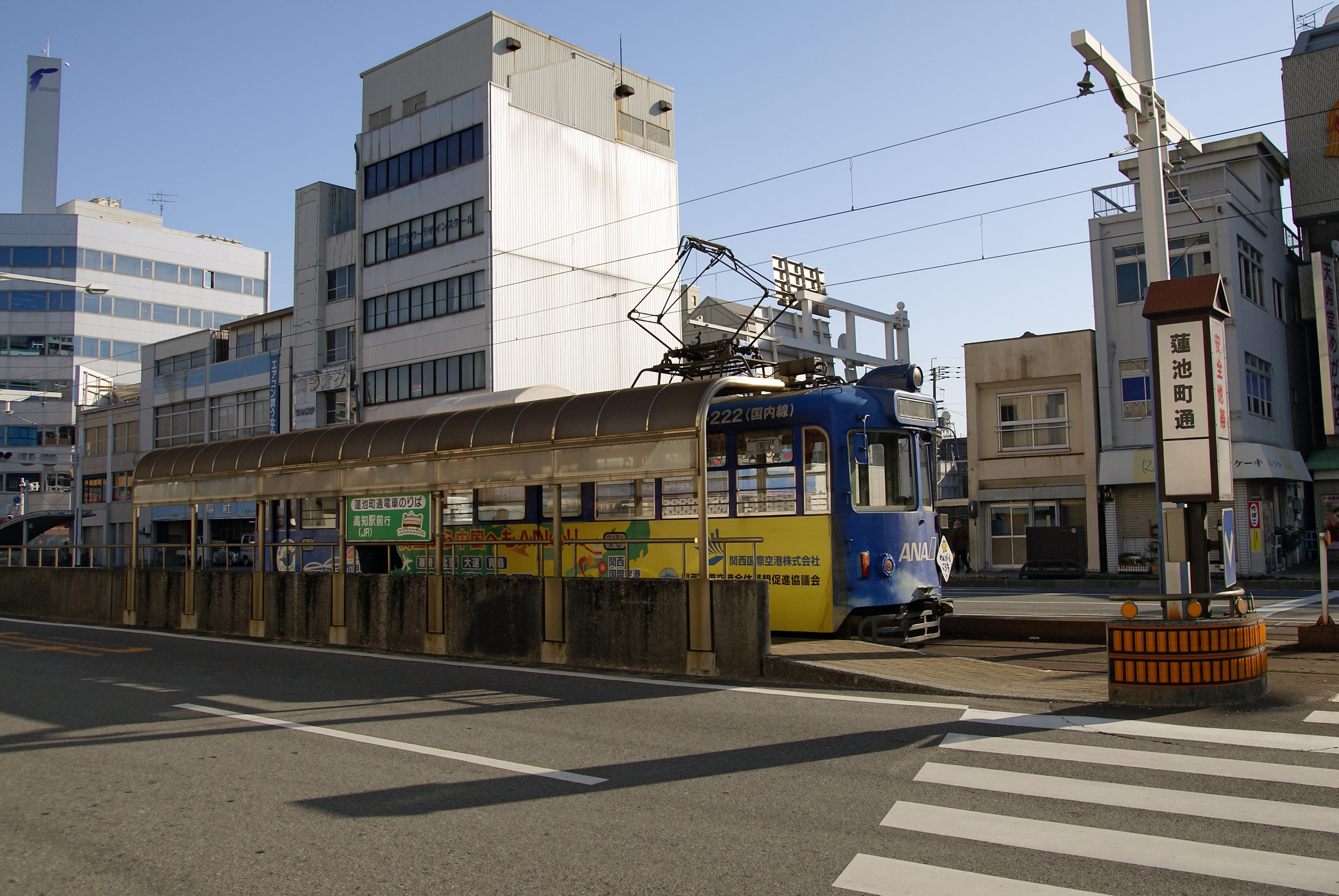 Hasuikecho-dori Station in Kochi, Kochi prefecture, Japan